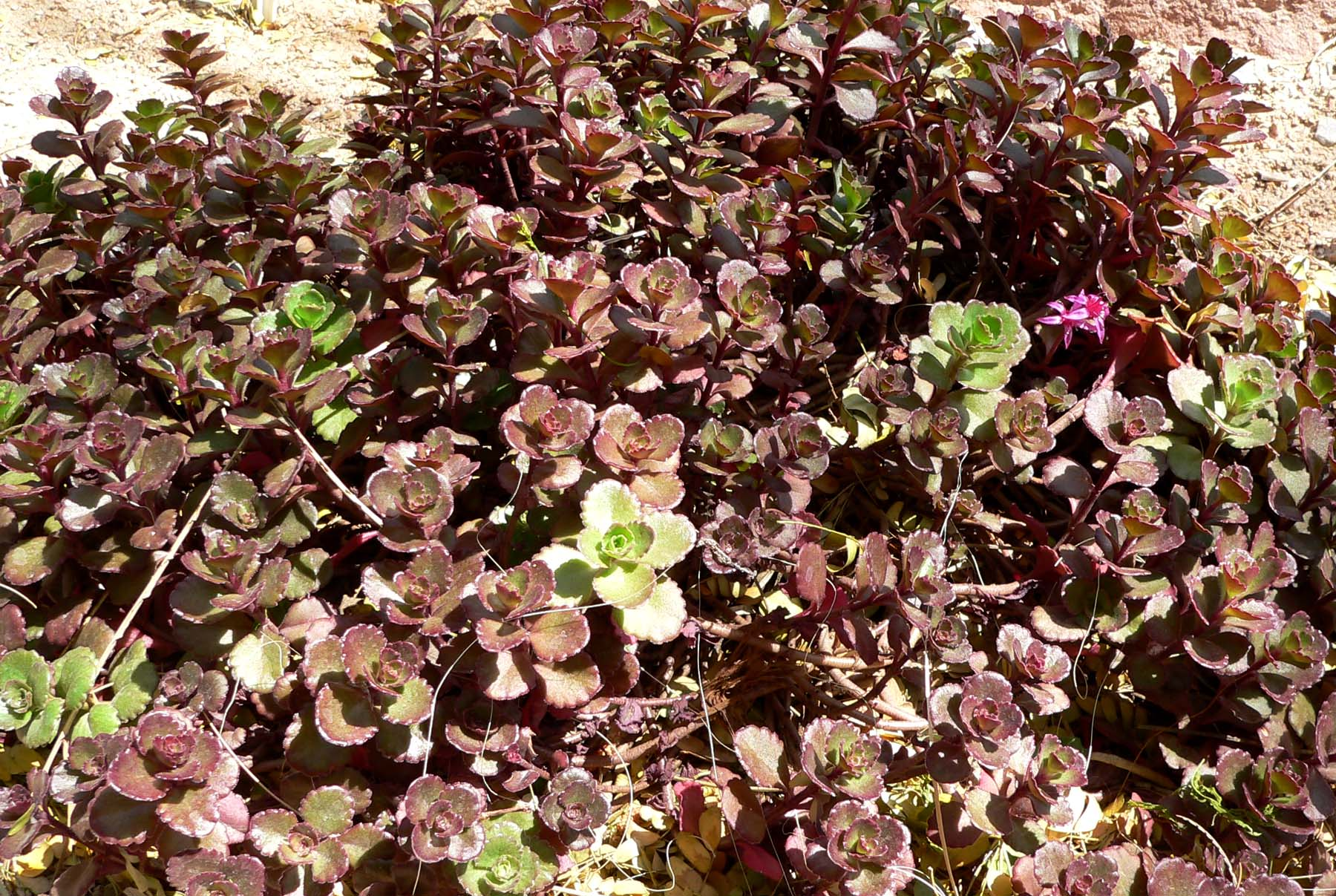 Photo of Sedum spurium 'Bronze Carpet' at the Desert Demonstration Garden in Las Vegas, Nevada